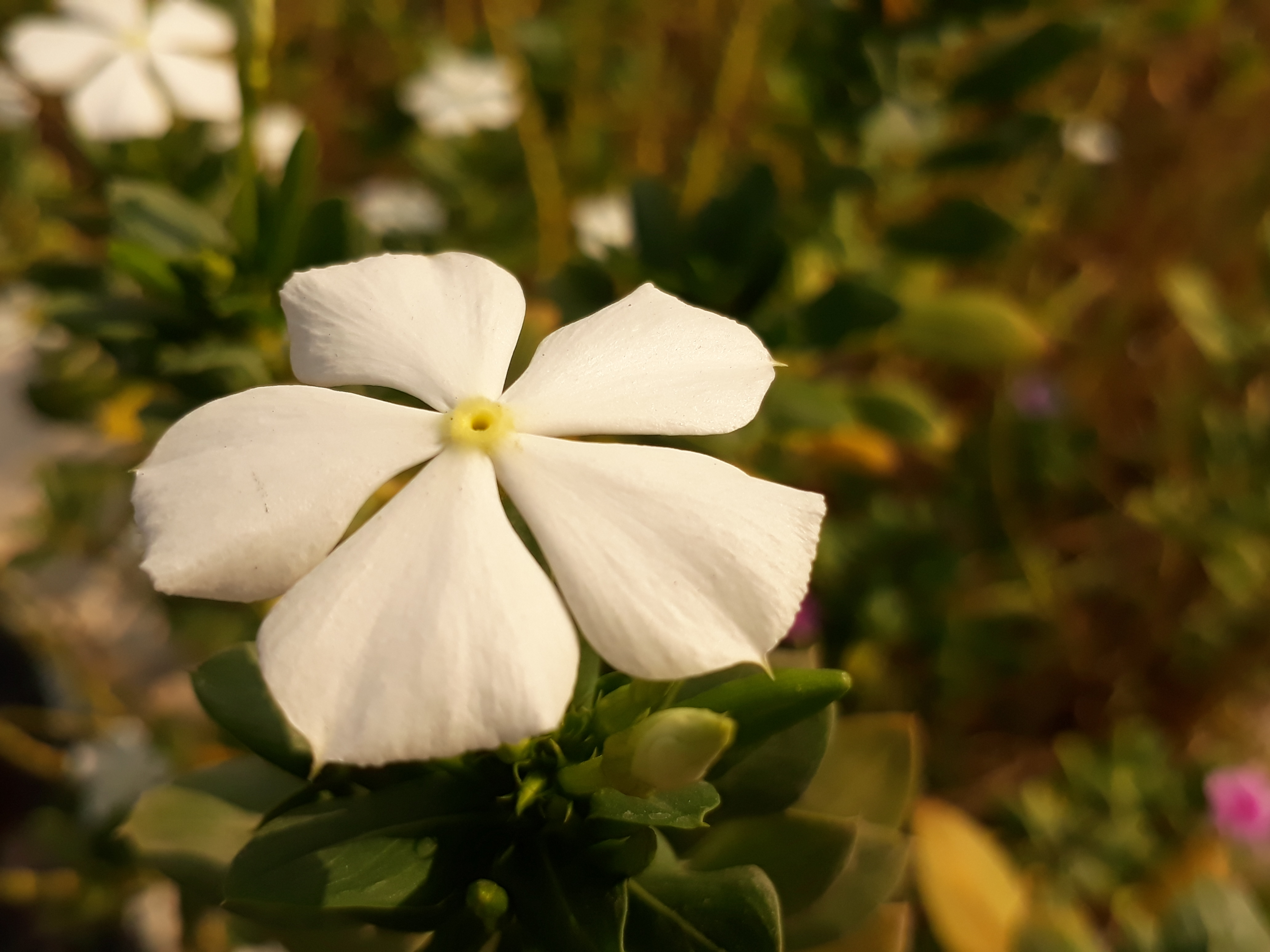 A Catharanthus Roseus flower in Hyderabad, India.